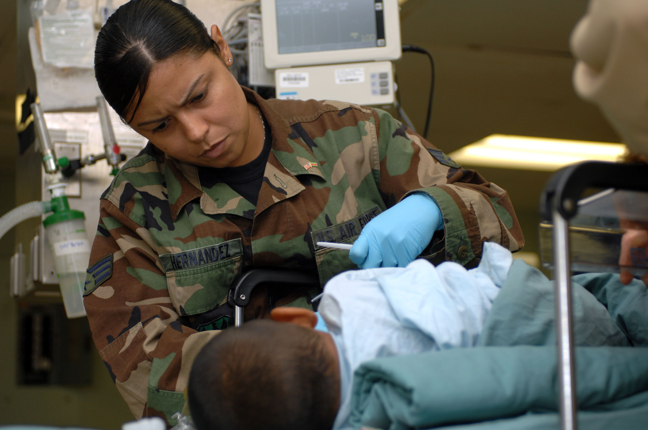 ATLANTIC OCEAN (Oct. 3, 2007) - U.S. National Guard Senior Airman Belitza Hernandez, attached to the post anesthesia care unit aboard Military Sealift Command hospital ship USNS Comfort (T-AH 20), helps a recovering patient after surgery. Comfort is on a four-month humanitarian deployment to Latin America and the Caribbean providing medical treatment to patients in a dozen countries. U.S. Navy photo by Mass Communication Specialist 2nd Class Elizabeth R. Allen (RELEASED)